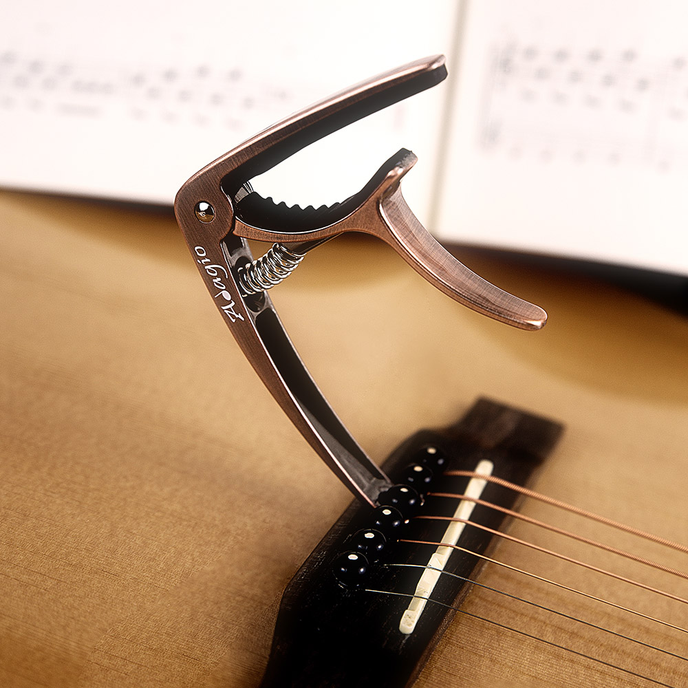 Adagio Guitar Capo Showing Peg Puller Facility